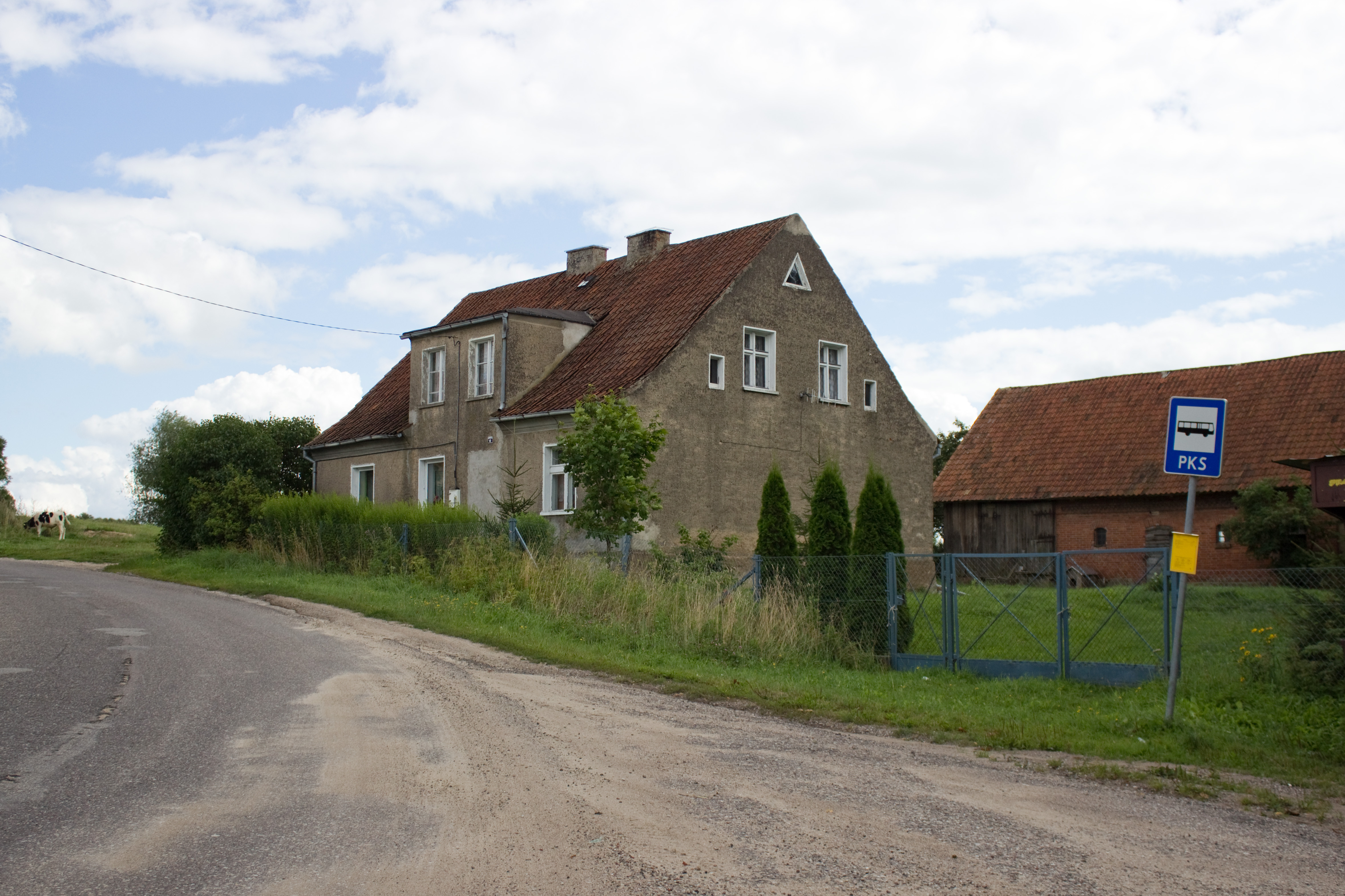 Wierzbowo, gmina Kalinowo, powiat ełcki, Warmian-Masurian Voivodeship